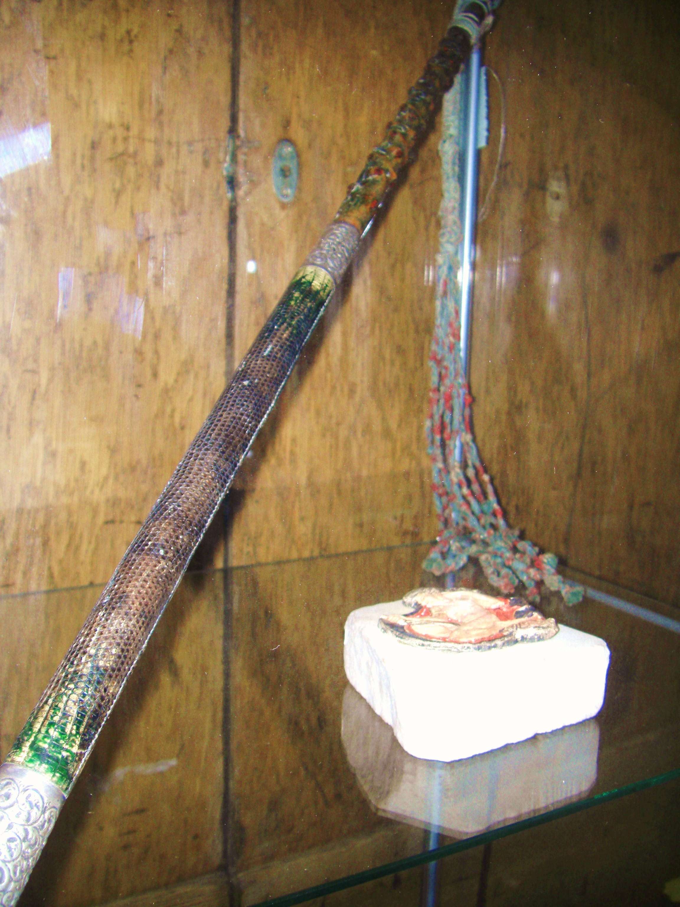 A scourge used in Wiccan rituals. This belonged to the New Forest coven, and was subsequently owned by Gerald Gardner, then Doreen Valiente, and is now owned by John Belham-Payne.